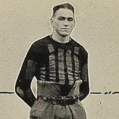 Vanderbilt Commodores' All-Southern Tackle Bob Rives. c. 1924 This work is in the public domain because it was published in the United States between 1924 and 1963 and although there may or may not have been a copyright notice, the copyright was not renewed. Unless its author has been dead for the required period, it is copyrighted in the countries or areas that do not apply the rule of the shorter term for US works, such as Canada (50 pma), Mainland China (50 pma, not Hong Kong or Macao), Germany (70 pma), Mexico (100 pma), Switzerland (70 pma), and other countries with individual treaties. See Commons:Hirtle chart for further explanation. This work is in the public domain in the United States because it was published in the United States between 1924 and 1977 without a copyright notice. See Commons:Hirtle chart for further explanation. Note that it may still be copyrighted in jurisdictions that do not apply the rule of the shorter term for US works (depending on the date of the author's death), such as Canada (50 p.m.a.), Mainland China (50 p.m.a., not Hong Kong or Macao), Germany (70 p.m.a.), Mexico (100 p.m.a.), Switzerland (70 p.m.a.), and other countries with individual treaties.